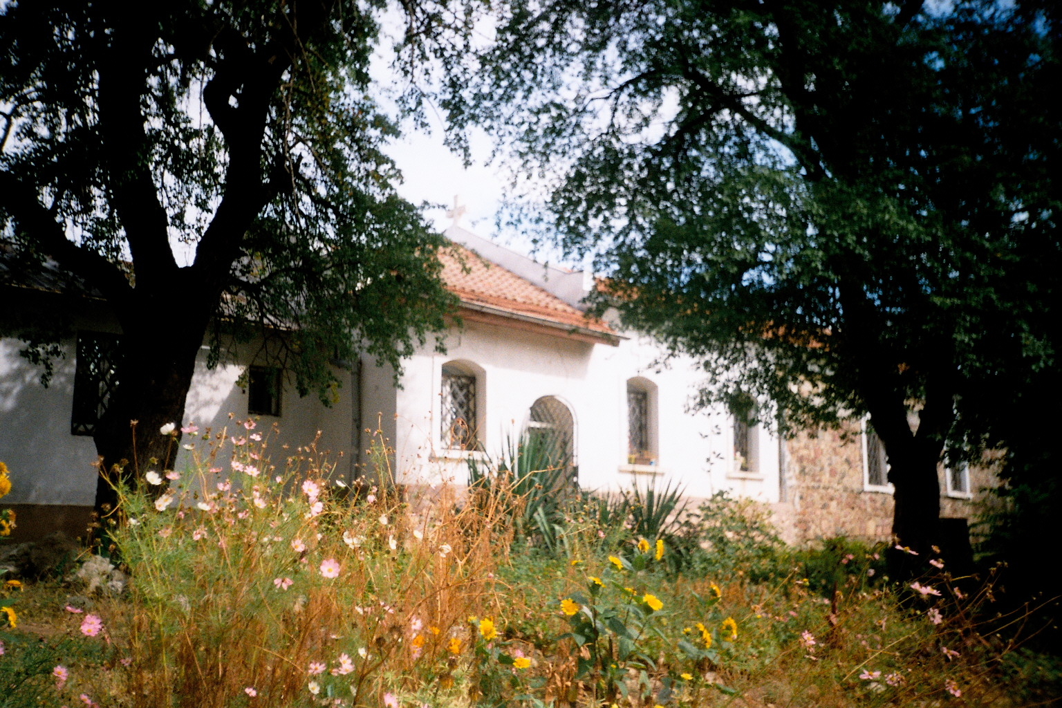 St Menas Orthodox church in Slatina neighborhood, Sofia, Bulgaria Picture taken in 2010